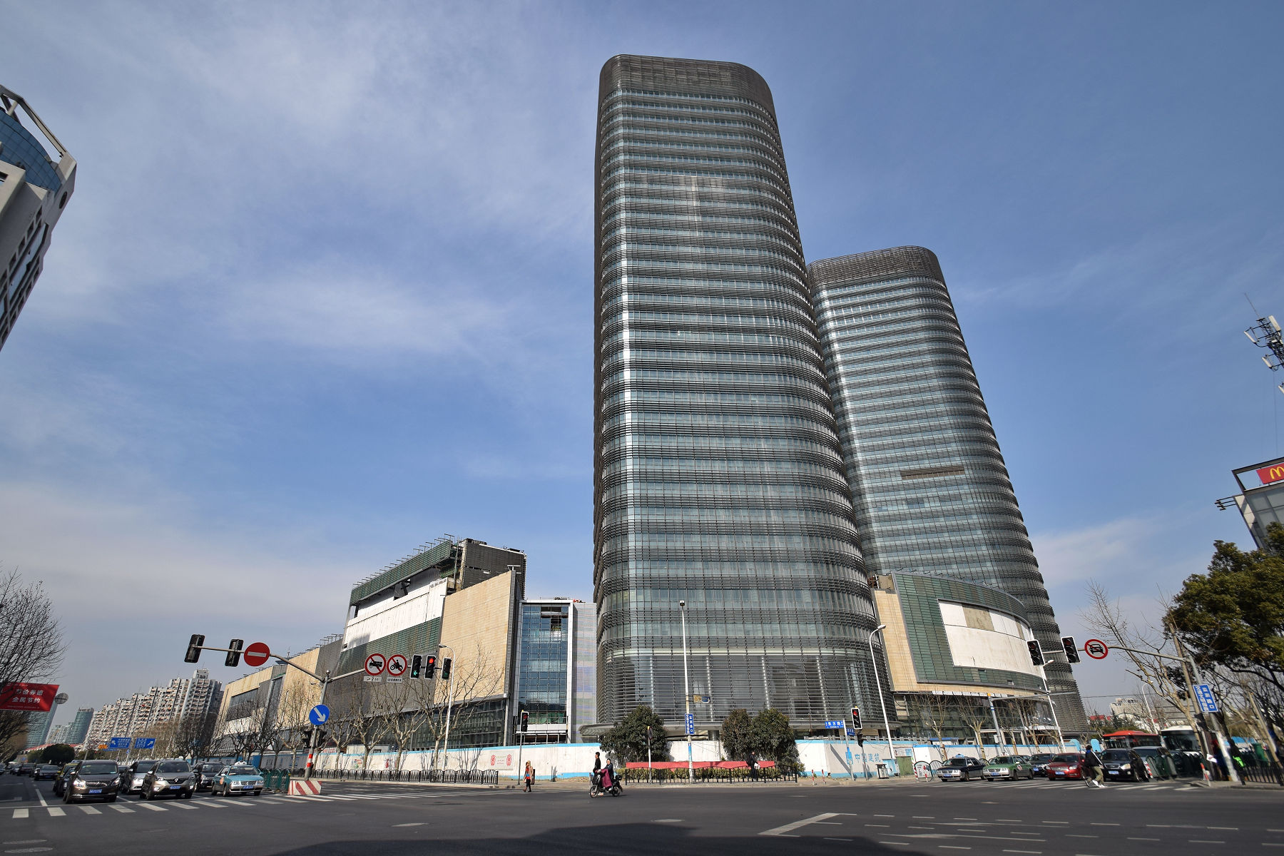 Century Link, Shanghai